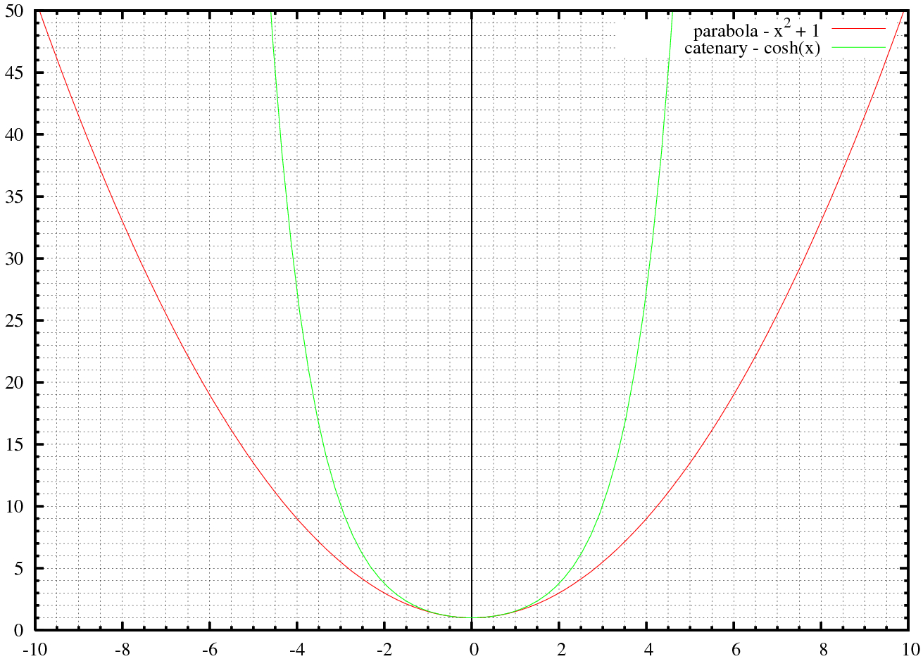 difference parabola curve from catenary curve.